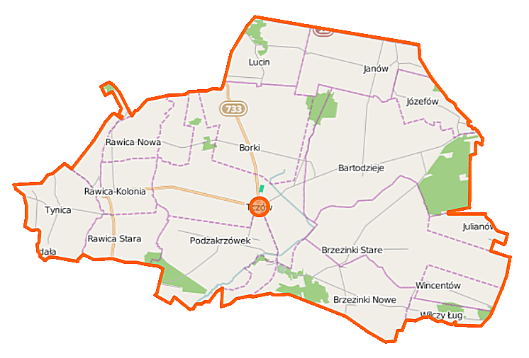 Map of Gmina Tczów, Poland This map of Tczów (gmina) was created from OpenStreetMap project data, collected by the community. This map may be incomplete, and may contain errors. Don't rely solely on it for navigation. Border coordinates51.375921.3457←↕→21.551451.2892